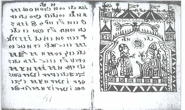 page 41 of Rohonc Codex